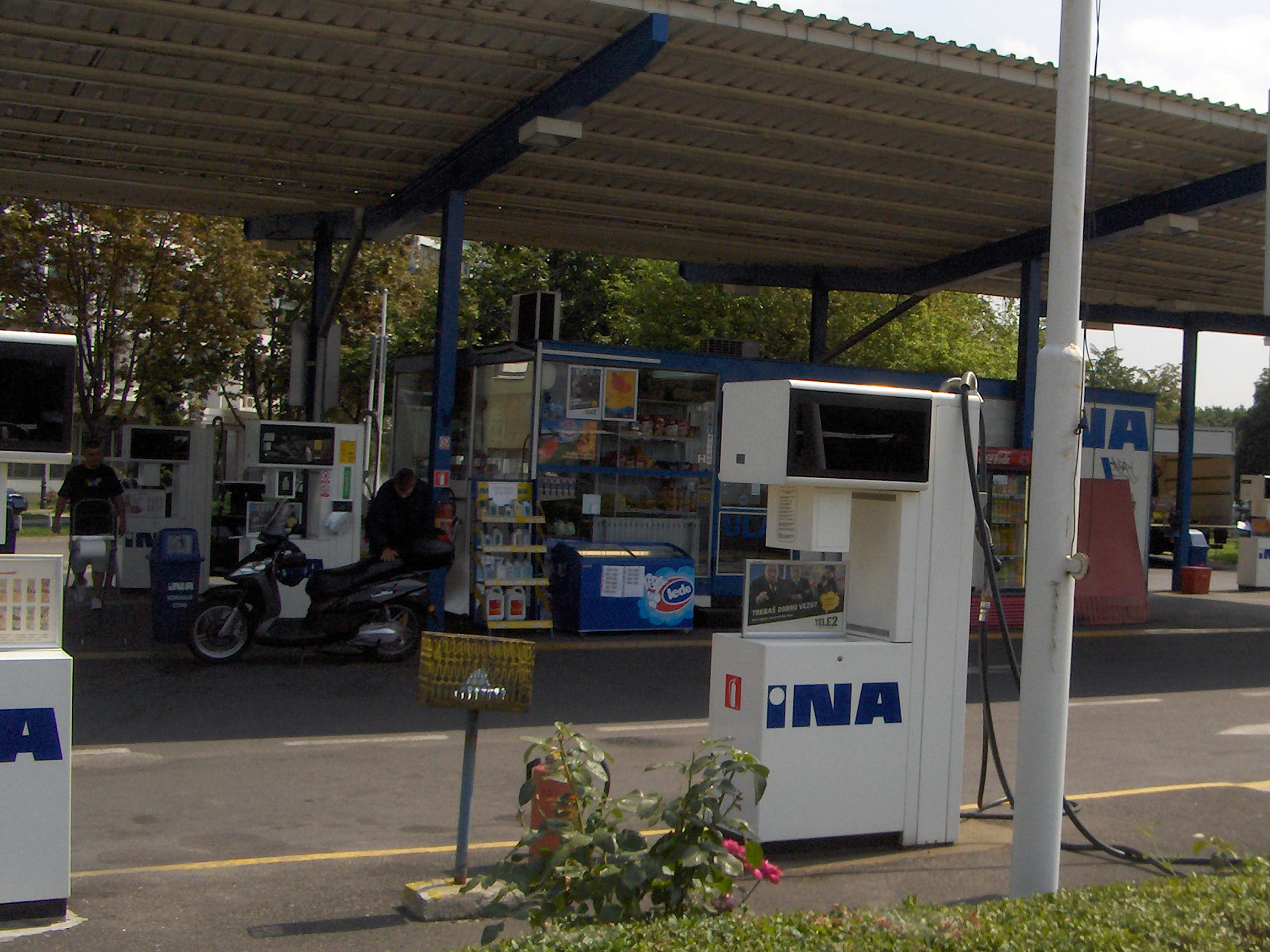 Gas station in Kanal neighborhood on the east side of the Marin Držić Avenue, across the street from the Zagreb central bus station